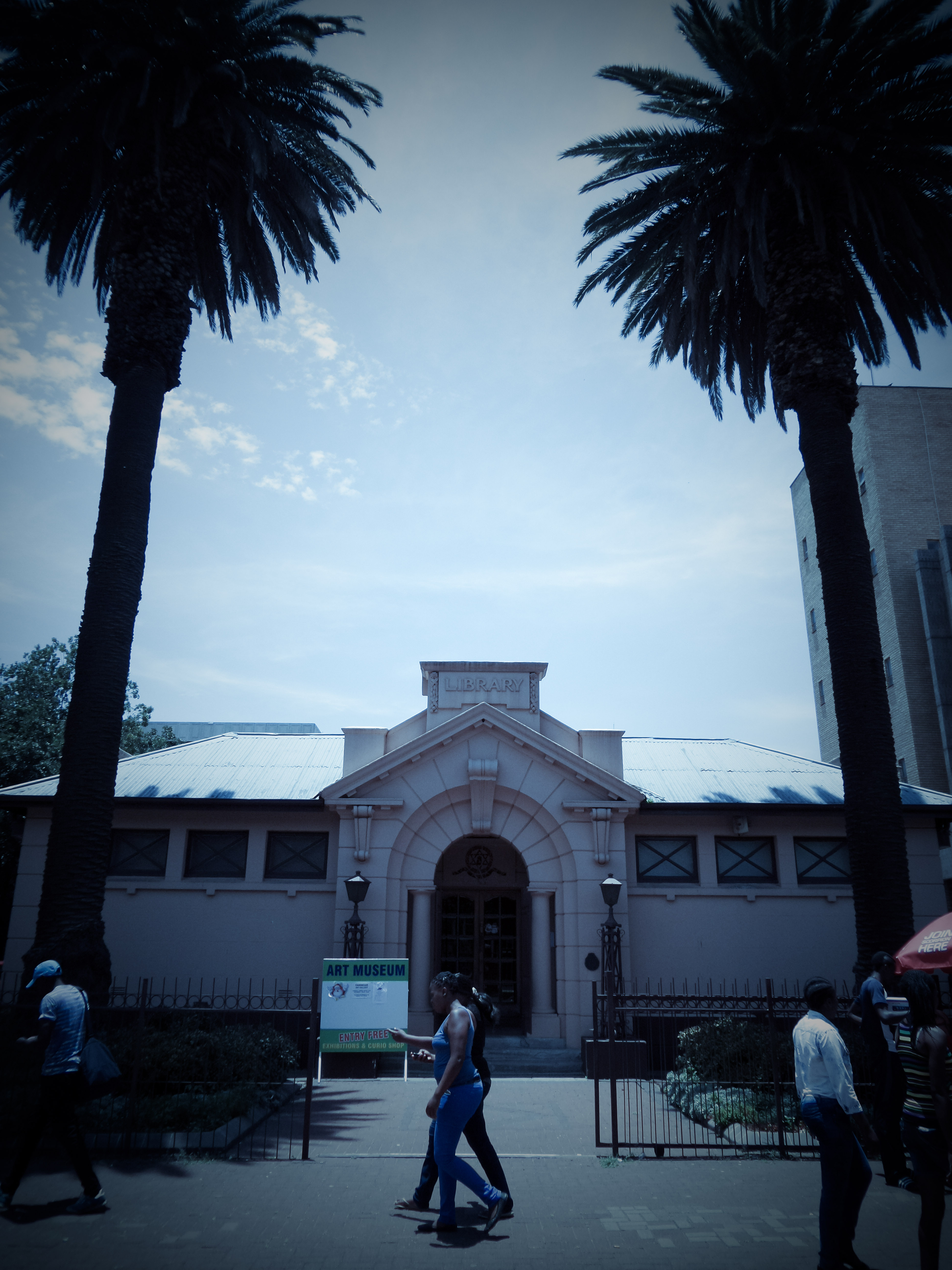 This media shows a South African Protected Site with SAHRA file reference 9/2/429/0008.